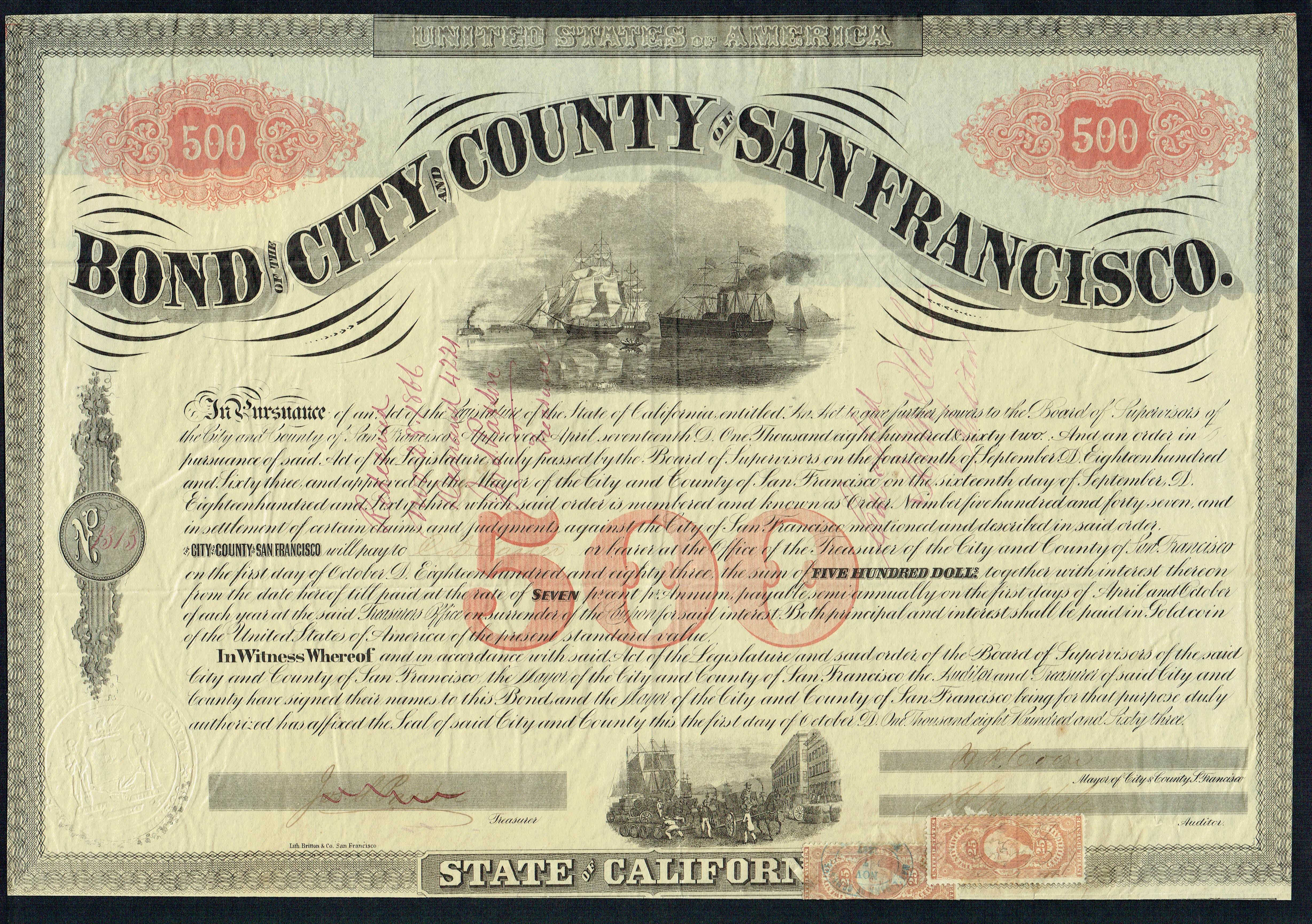 Bond of the City and County of San Francisco, issued 1. October 1863